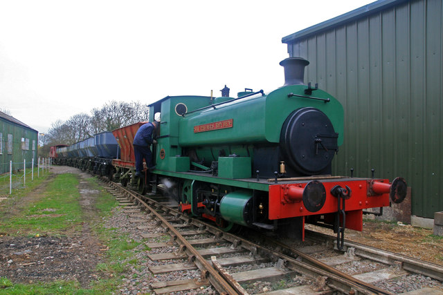 Rocks by Rail - train of mineral wagons. A display alongside the new exhibition hall. The locomotive is Sir Thomas Royden and is an Andrew Barclay 0-4-0ST No. 2088 of 1940 that worked at Stourport Power station until 1977.